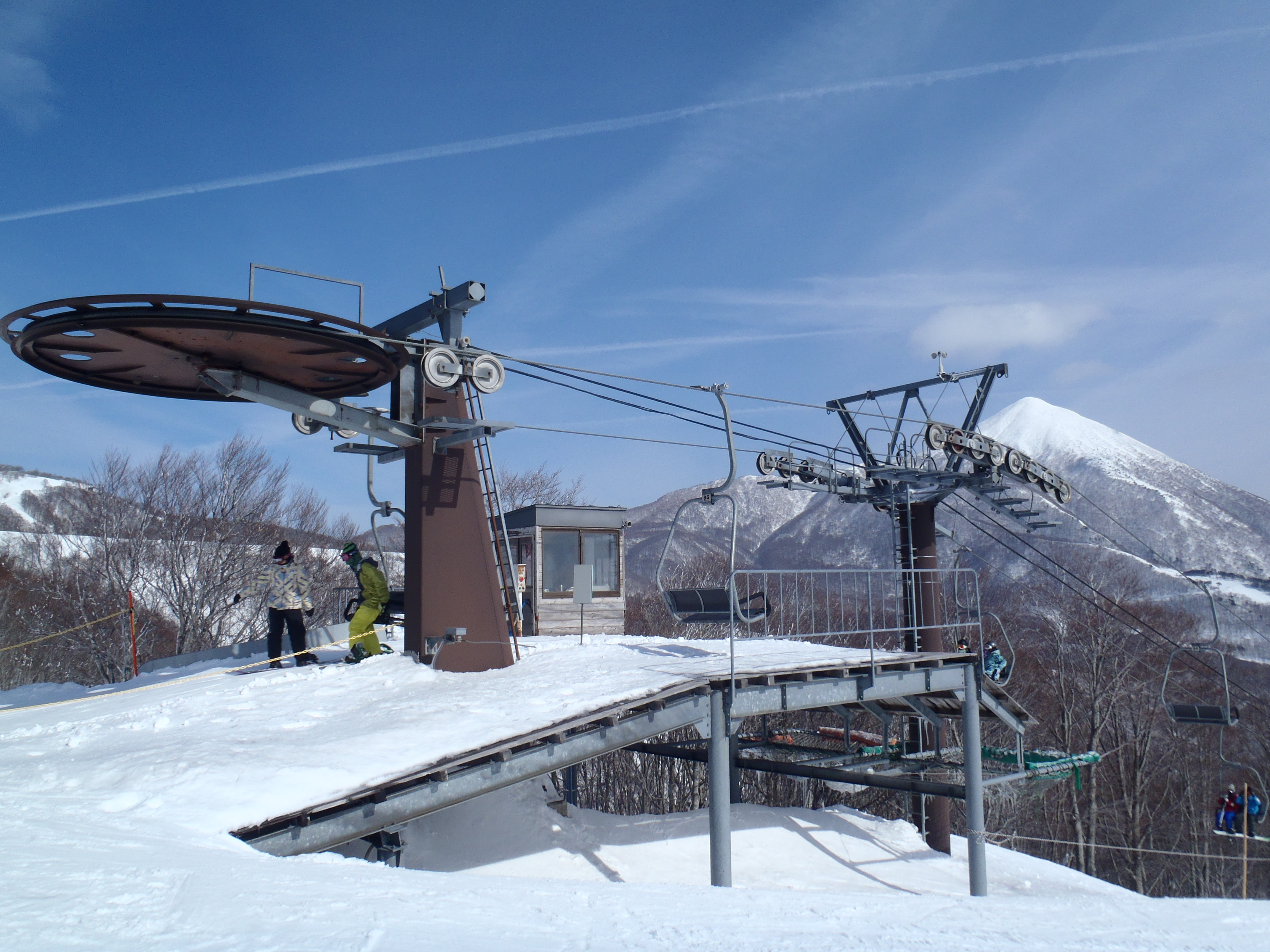 View from the top of the No.6 lift of ALTS Bandai Snow Resort.